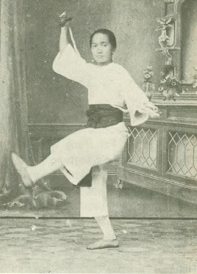 Young Mok Kwai-lan demonstrating the flying plummet